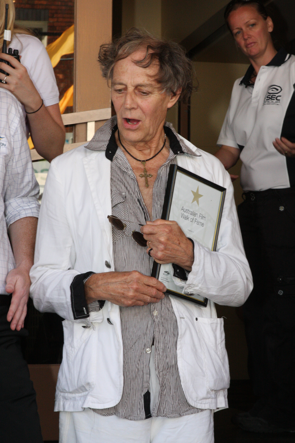 Barry Otto at the Australian Film Walk of Fame